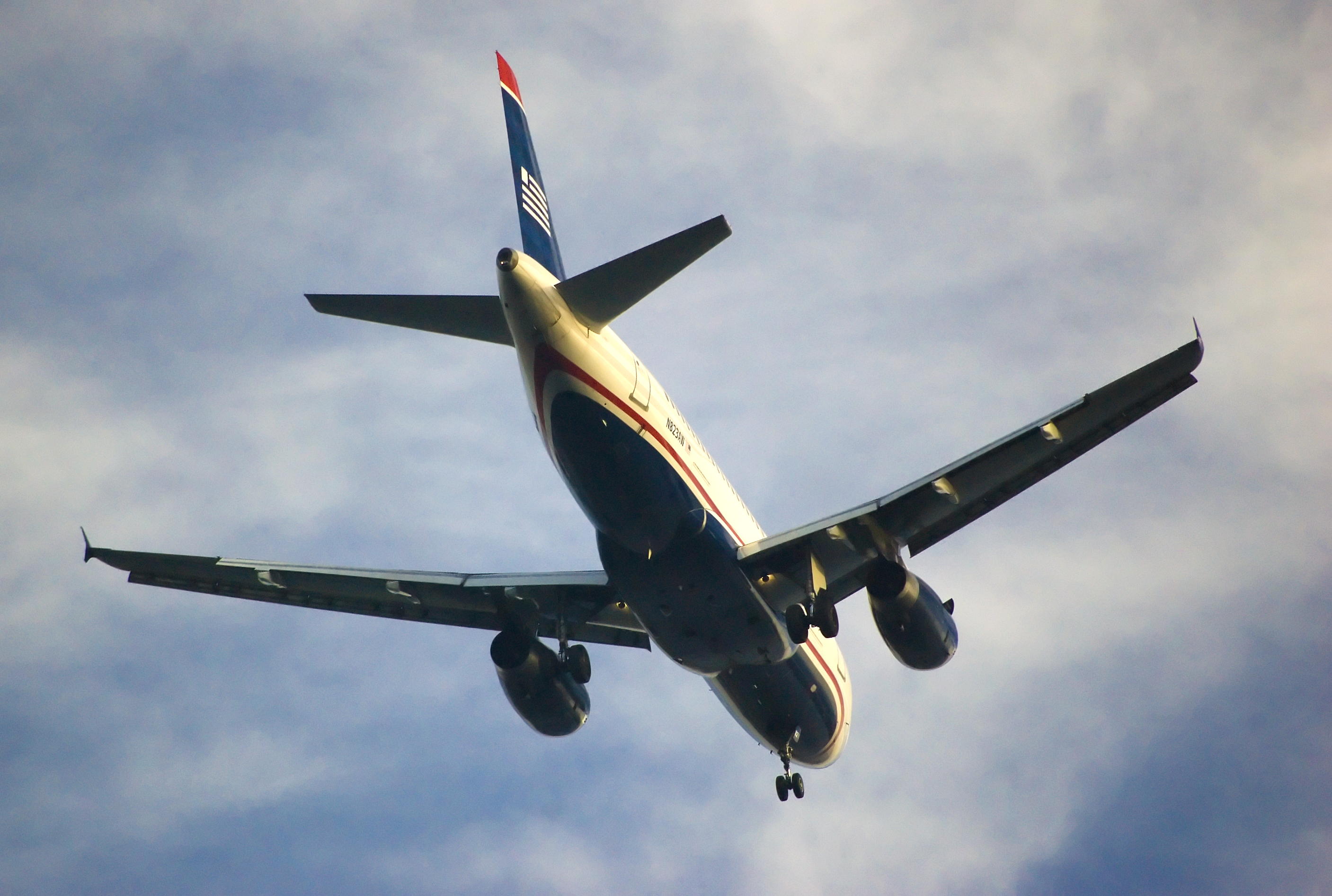 A US Airways Airbus A319 aircraft on final approach for Ronald Reagan Washington National Airport in Washington, D.C.